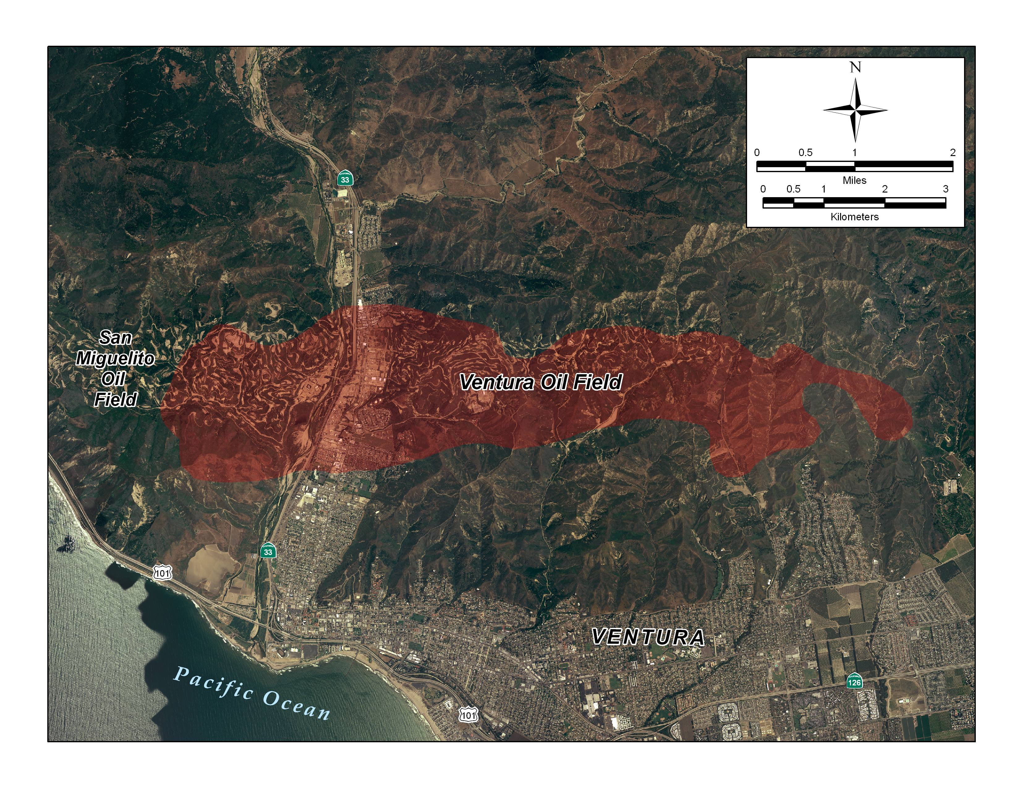 Ventura Oil Field detail; by self in ArcGIS 9.3; all source data in public domain